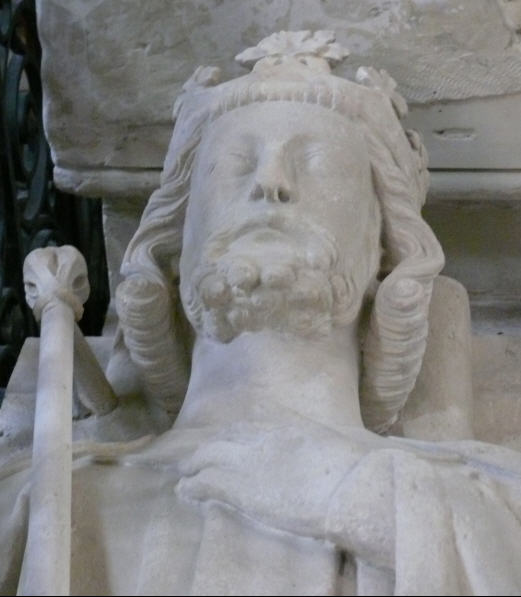 Ludvík VI.